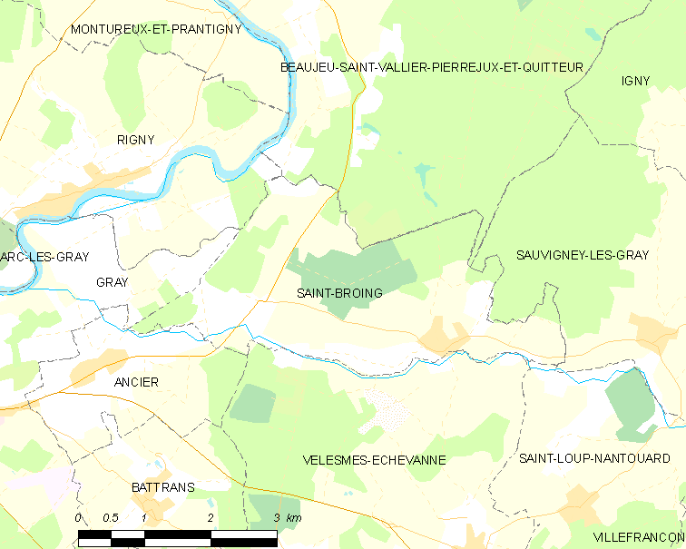 Map of French municipality